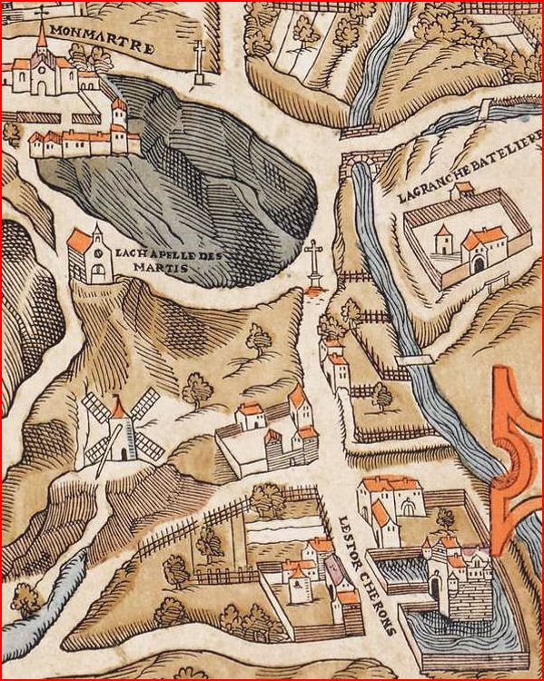 North-west corner (left bottom) on the map of Truschet and Hoyaux (1550) with the Ferme de la Grange-Batelière, the Château des Porcherons and the ruisseau de Ménilmontant - Grand Égout between them. We see also the chapelle des Martyrs and the church Saint-Pierre de Montmartre. The scale is deformed in order to put them on the plan, because they are more in the north (on the left).